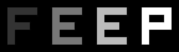 This is an example of a grayscale netbpm image (PGM) which is reperented by the following ASCII characters (you may save the following code with the editor of your choice and rename the file to *.pgm): P2 # Shows the word "FEEP" (example from Netpbm man page on PGM) 24 7 15 0 0 0 0 0 0 0 0 0 0 0 0 0 0 0 0 0 0 0 0 0 0 0 0 0 3 3 3 3 0 0 7 7 7 7 0 0 11 11 11 11 0 0 15 15 15 15 0 0 3 0 0 0 0 0 7 0 0 0 0 0 11 0 0 0 0 0 15 0 0 15 0 0 3 3 3 0 0 0 7 7 7 0 0 0 11 11 11 0 0 0 15 15 15 15 0 0 3 0 0 0 0 0 7 0 0 0 0 0 11 0 0 0 0 0 15 0 0 0 0 0 3 0 0 0 0 0 7 7 7 7 0 0 11 11 11 11 0 0 15 0 0 0 0 0 0 0 0 0 0 0 0 0 0 0 0 0 0 0 0 0 0 0 0 0 0 0 0 More infos at